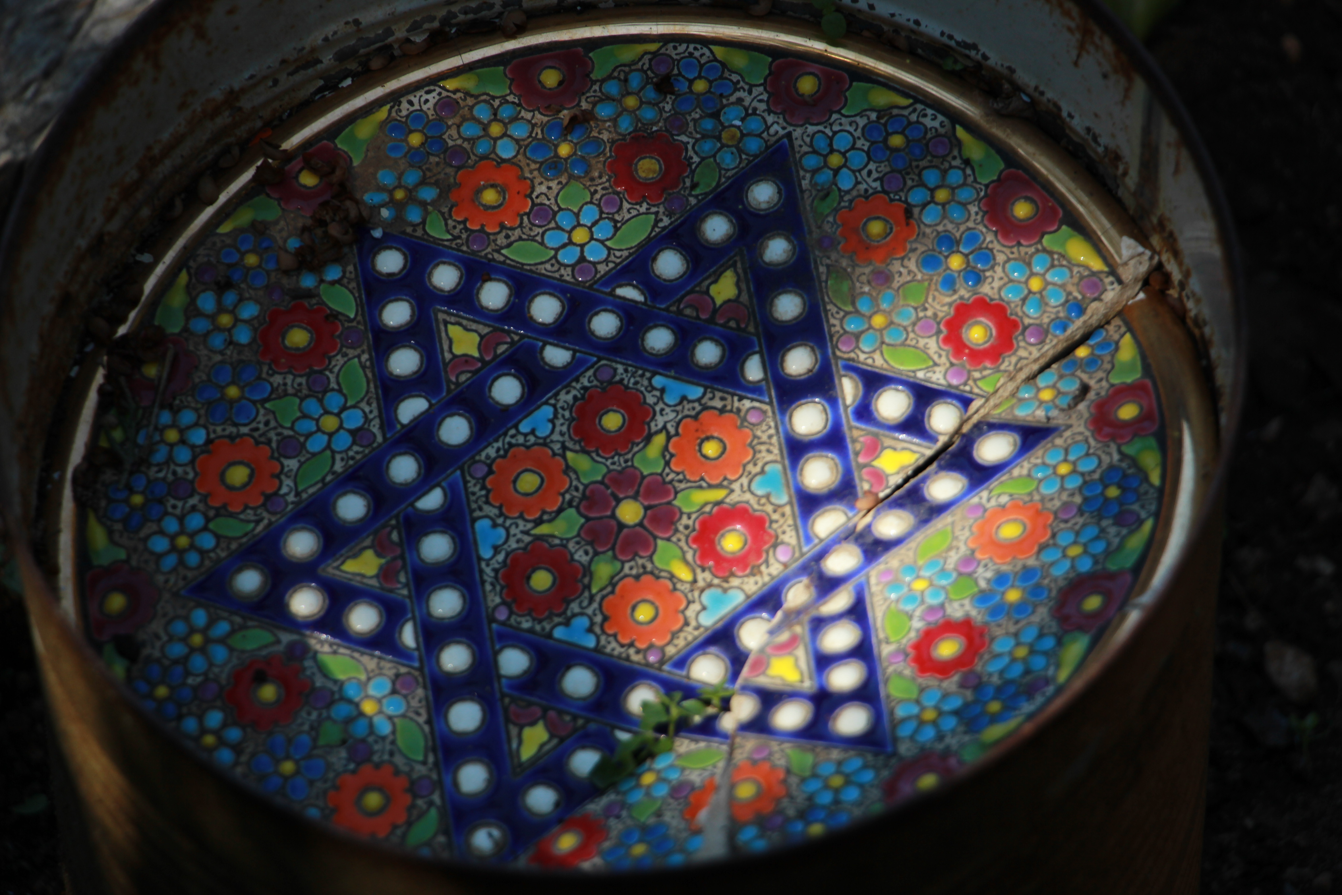 מגן דוד